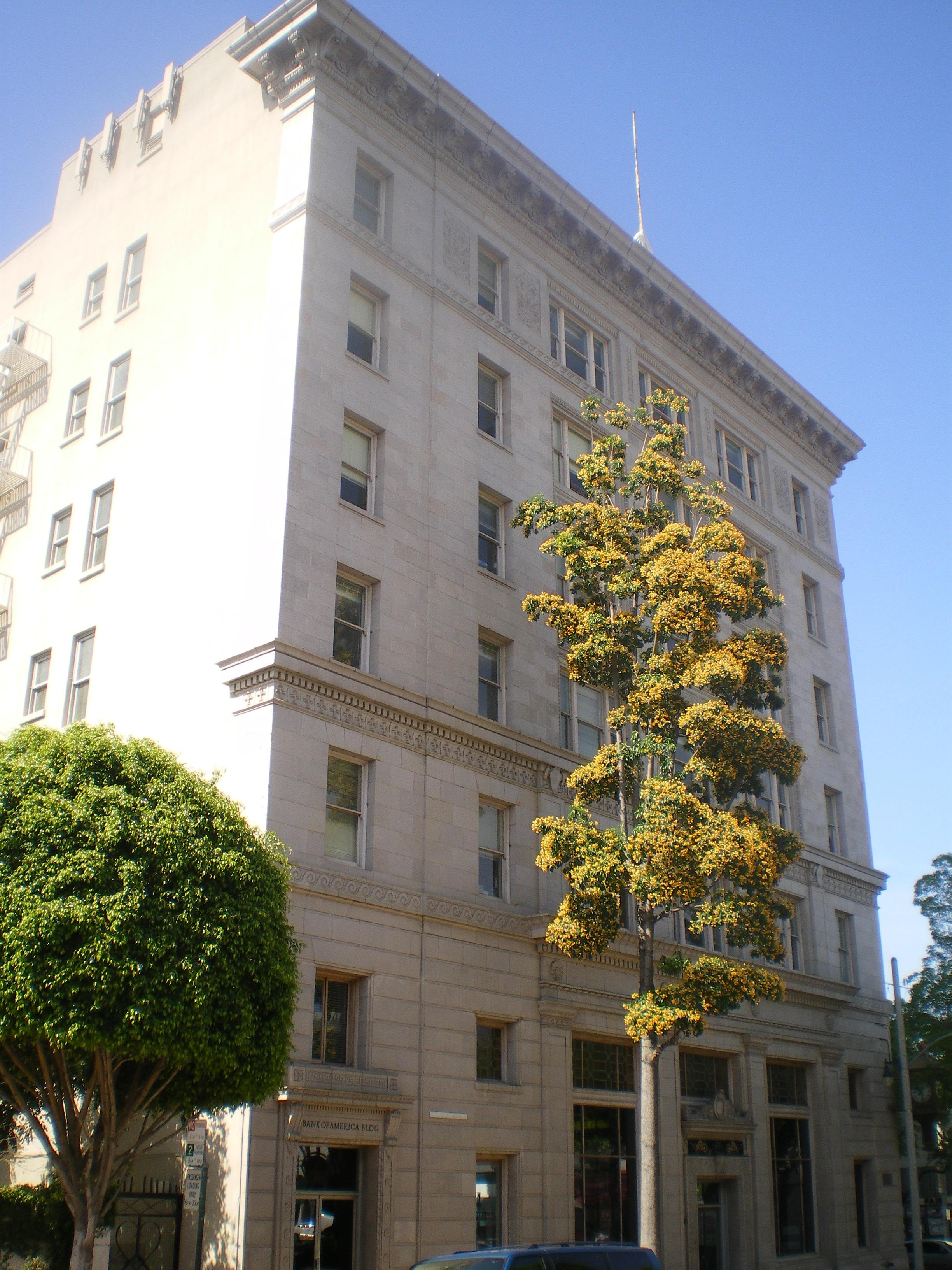 National Bank of Whittier Building — 13002 Philadelphia Street, downtown Whittier, California. 1923 building was designed by John and Donald Parkinson, and is on the National Register of Historic Places in Los Angeles..